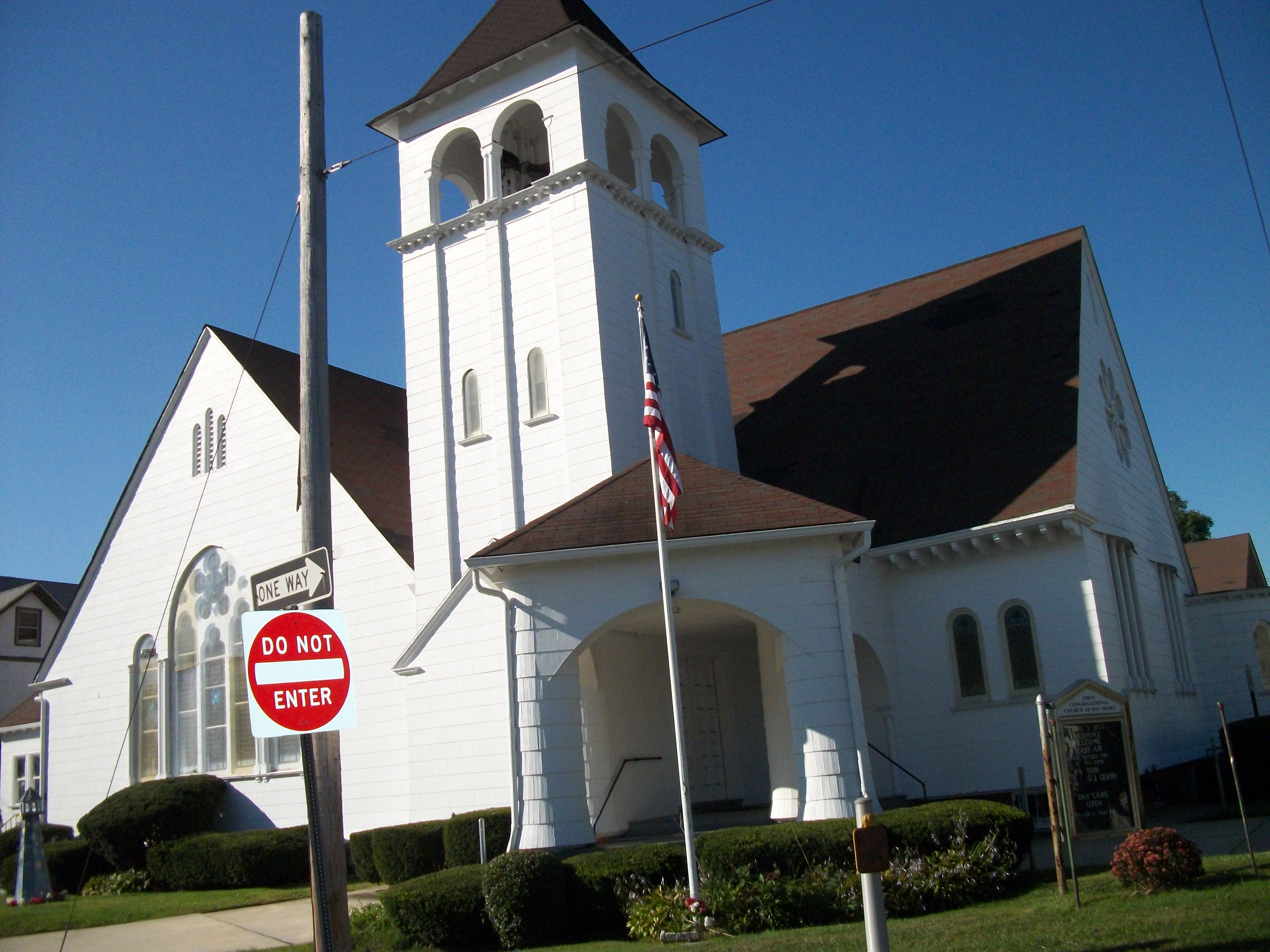 The historic 1891-built First Congregational Church of Bay Shore as seen from the corner of Union Boulevard and First Street in Bay Shore, New York. This church is on the National Register of Historic Places, and this photograph is the first of more to come.